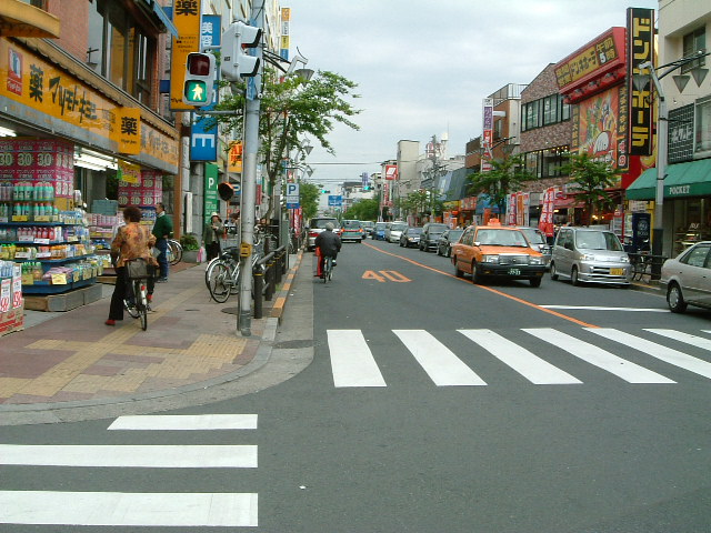 A photo of Urban Subsidary Route 255(都市計画道路補助255号線), taken at Takenotsuka,Adachi-ward,Tokyo.